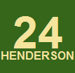 I created this clip for the Oakland Athletics' Retired Numbers article.